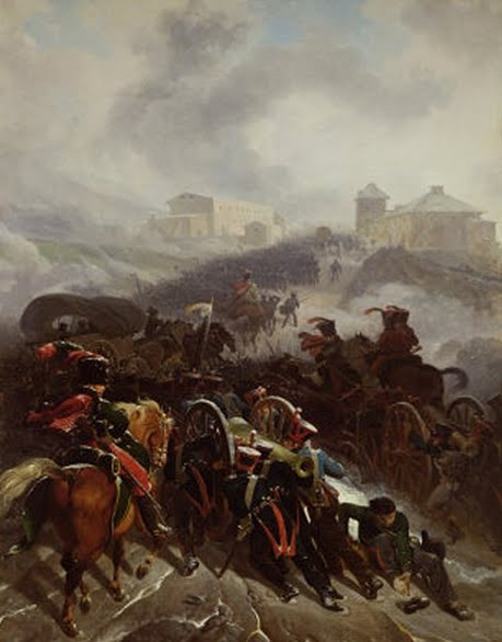 French army in the Sierra de Guadarrama (Peninsular war, 1808)